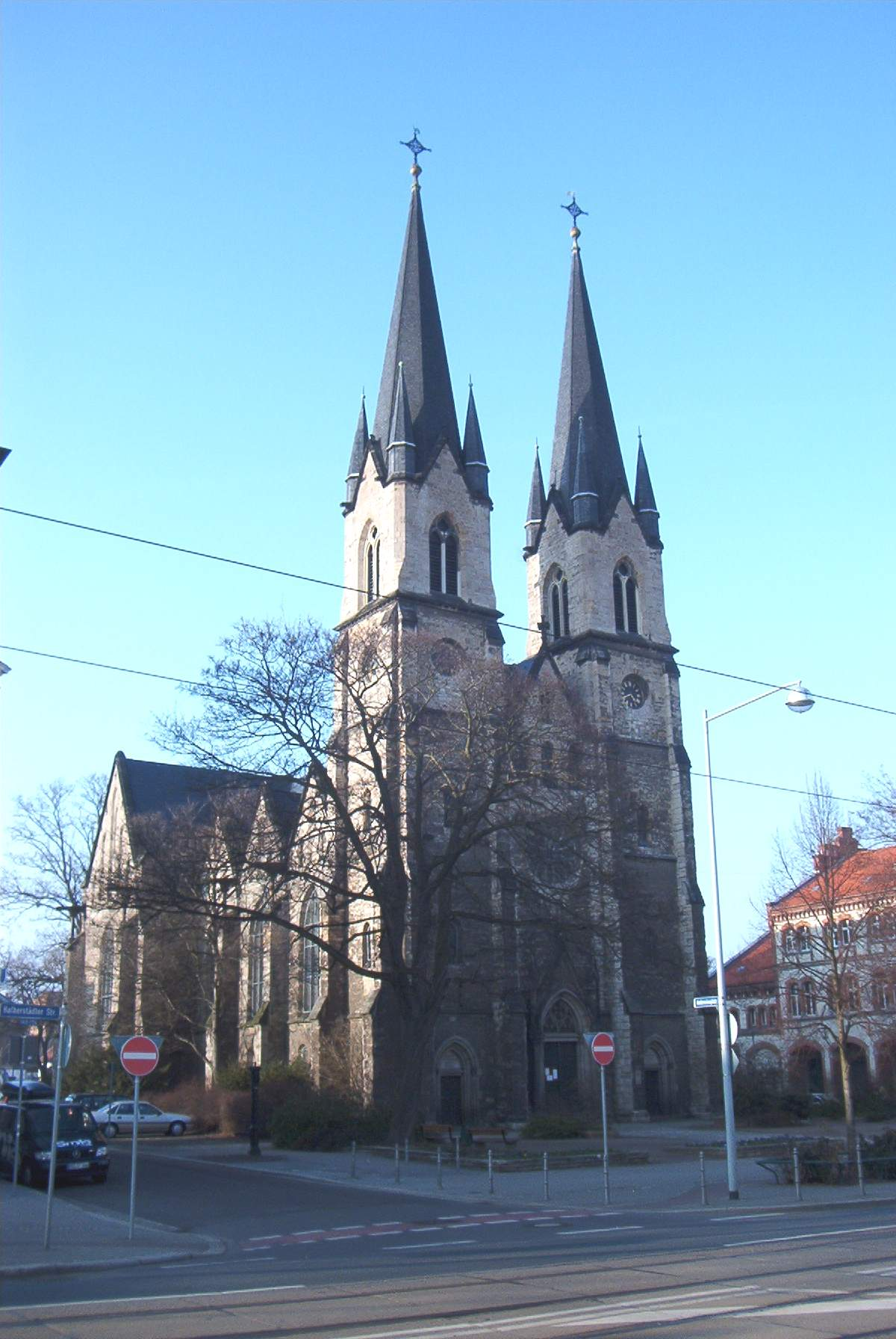 Ambrose Church (Magdeburg)